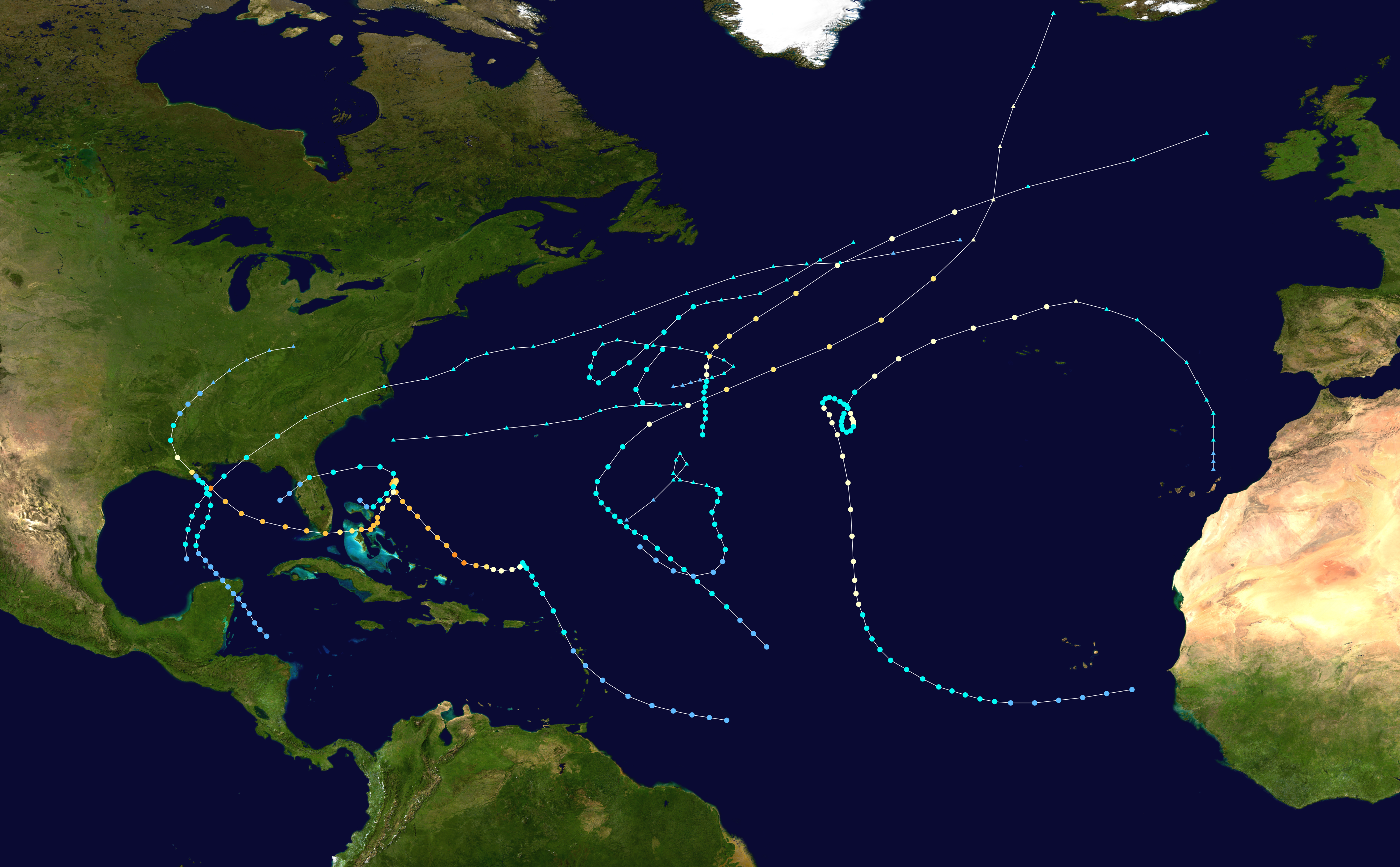 This map shows the tracks of all tropical cyclones in the 1965 Atlantic hurricane season. The points show the location of each storm at 6-hour intervals. The colour represents the storm's maximum sustained wind speeds as classified in the Saffir-Simpson Hurricane Scale (see below), and the shape of the data points represent the type of the storm. Saffir–Simpson scale Tropical depression≤38 mph≤62 km/h Category 3111–129 mph178–208 km/h Tropical storm39–73 mph63–118 km/h Category 4130–156 mph209–251 km/h Category 174–95 mph119–153 km/h Category 5≥157 mph≥252 km/h Category 296–110 mph154–177 km/h Unknown Storm type Tropical cyclone Subtropical cyclone Extratropical cyclone / Remnant low / Tropical disturbance / Monsoon depression